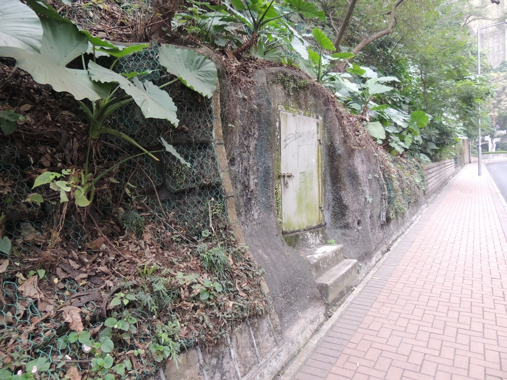 Mount Parish ARP portal No.72